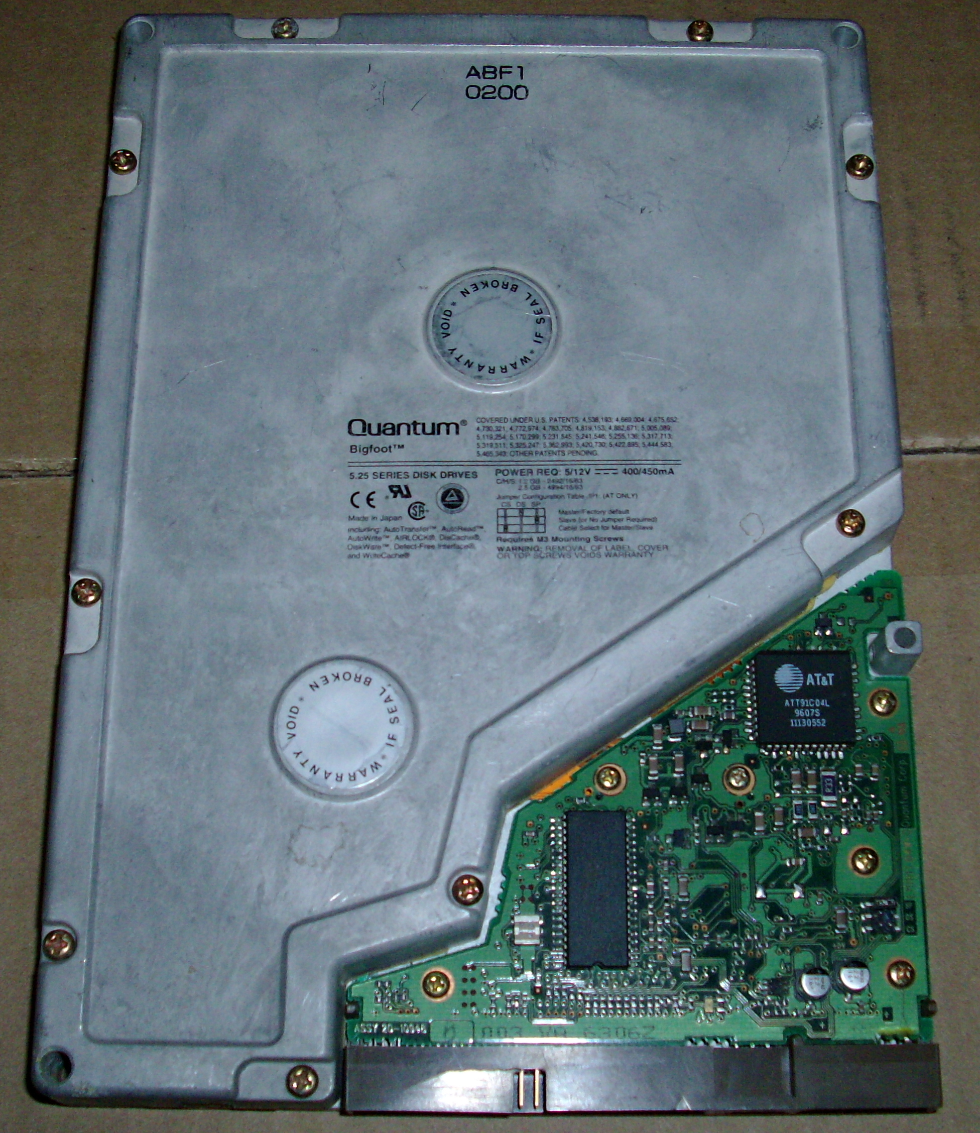 Quantum Bigfoot hard drive